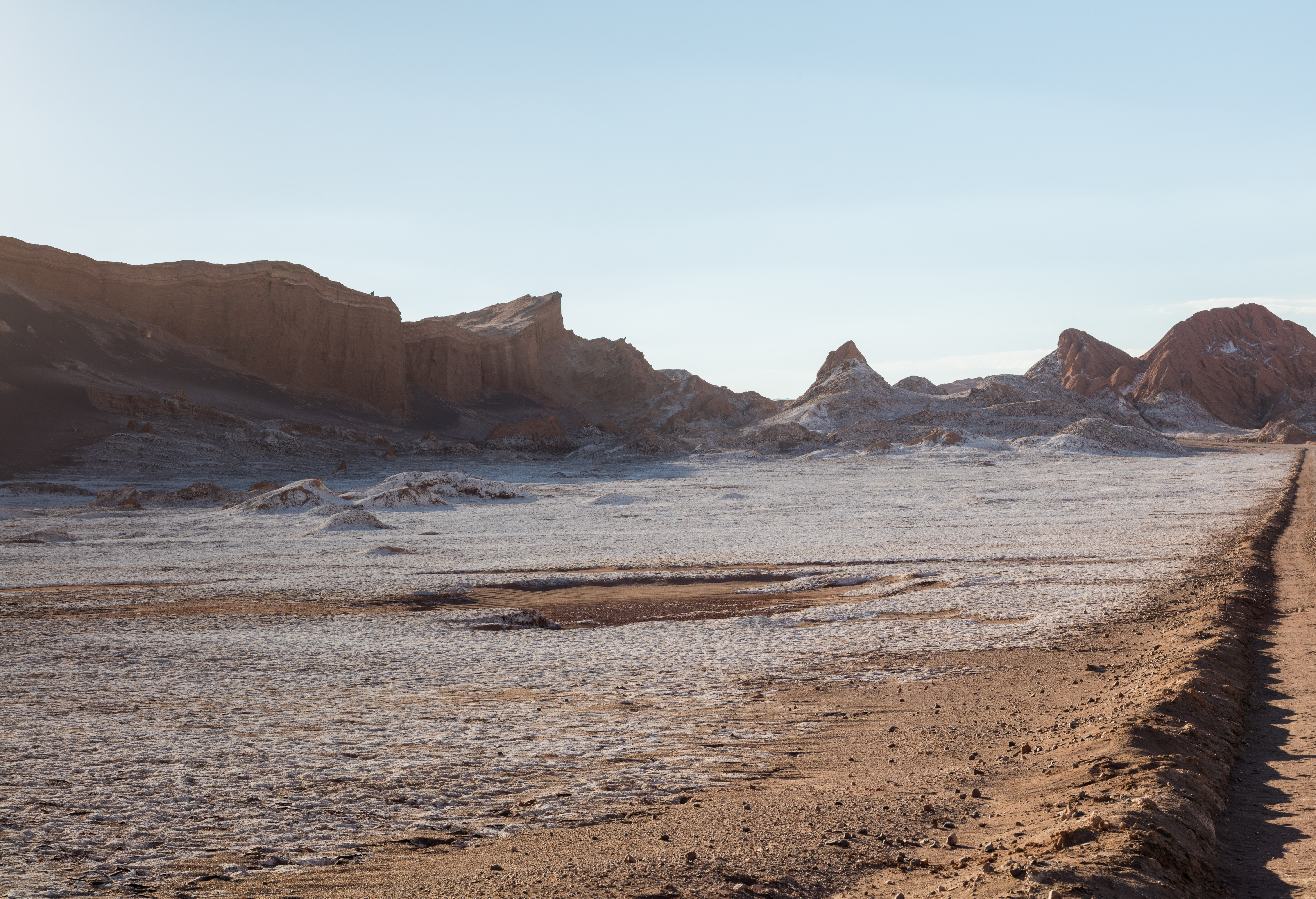 Valle de la Luna, San Pedro de Atacama, Chile